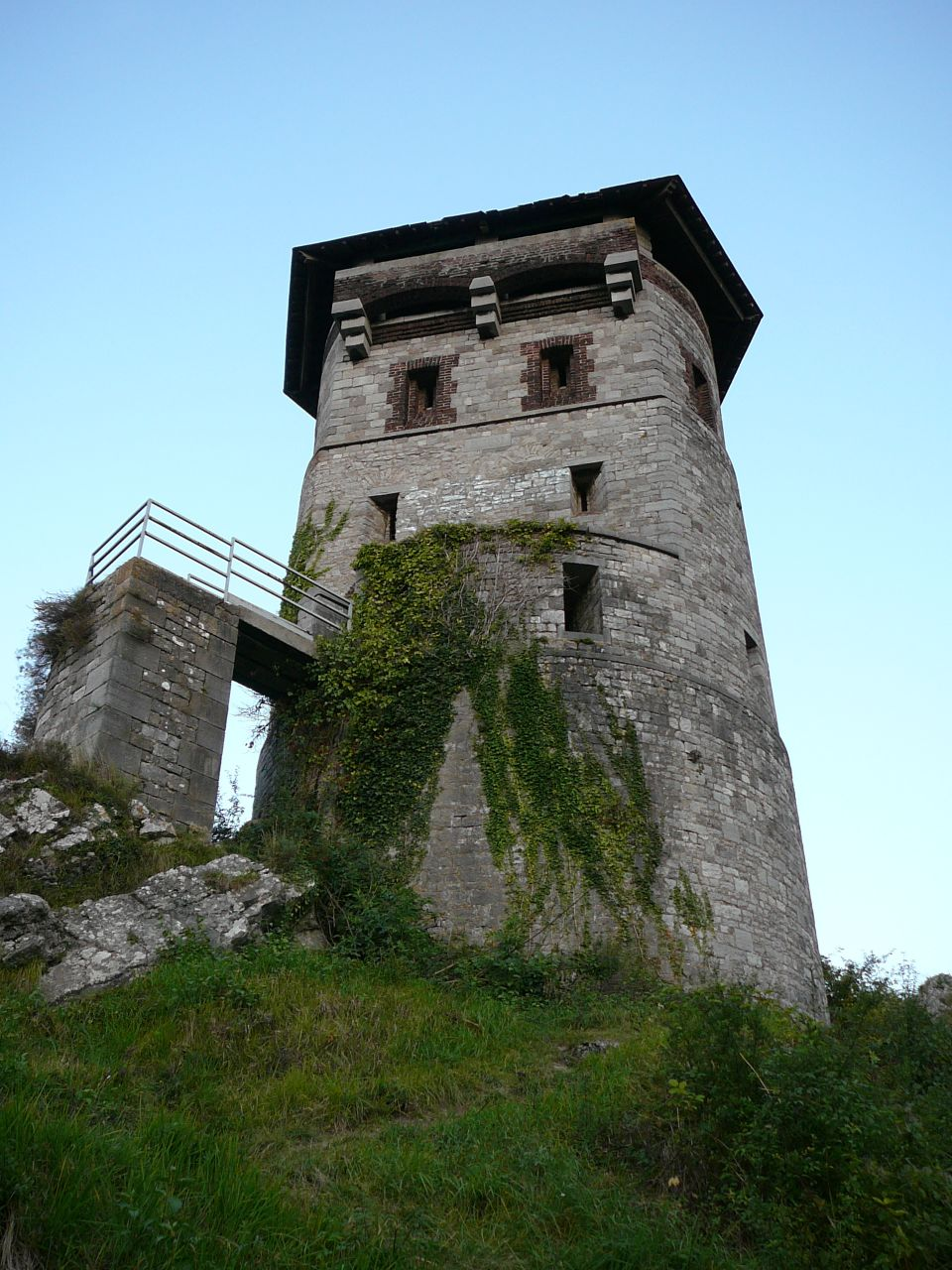 Old Gregoire's Tower in Givet, France